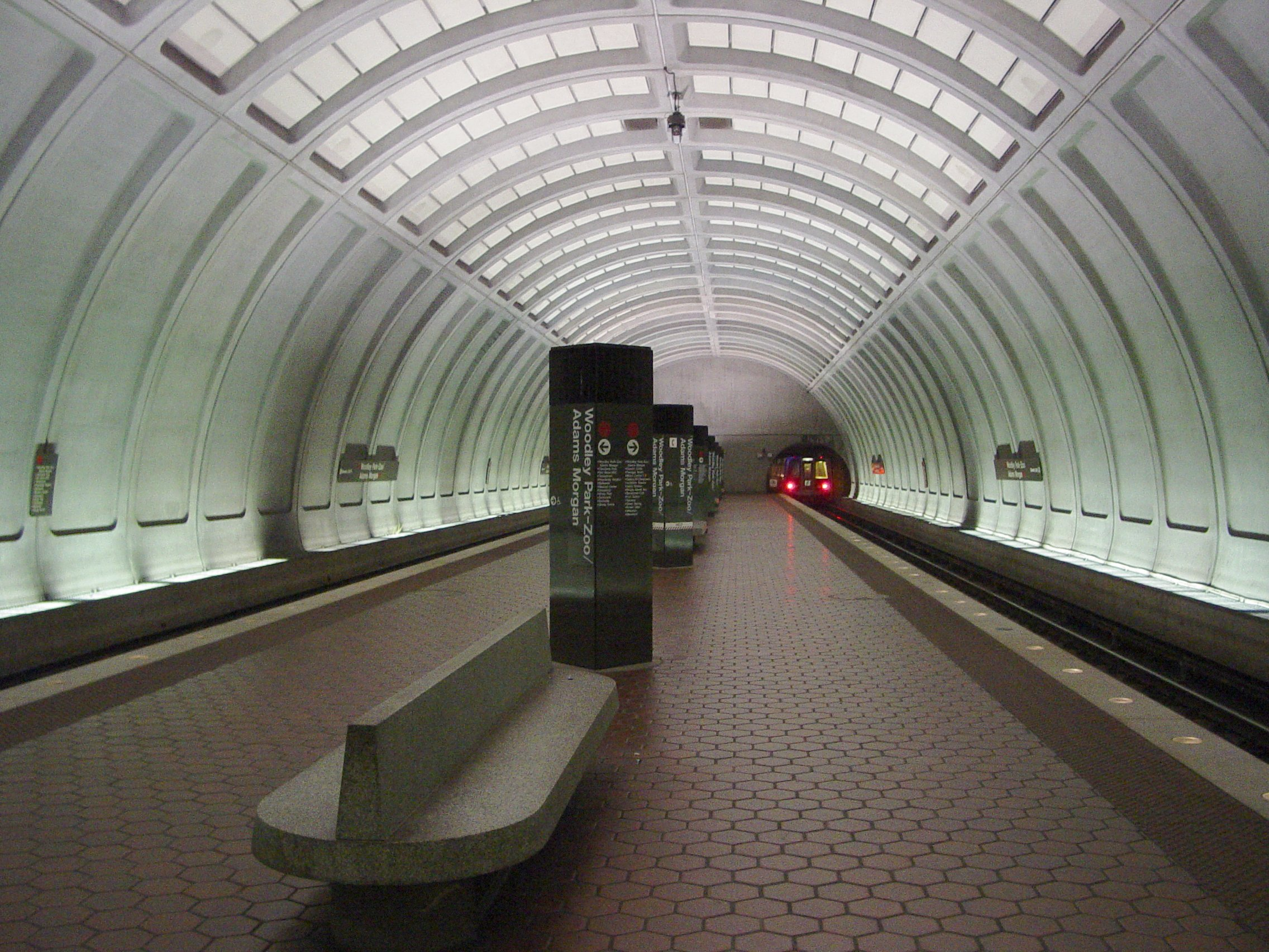 Woodley Park-Zoo/Adams Morgan station on the Washington Metro.